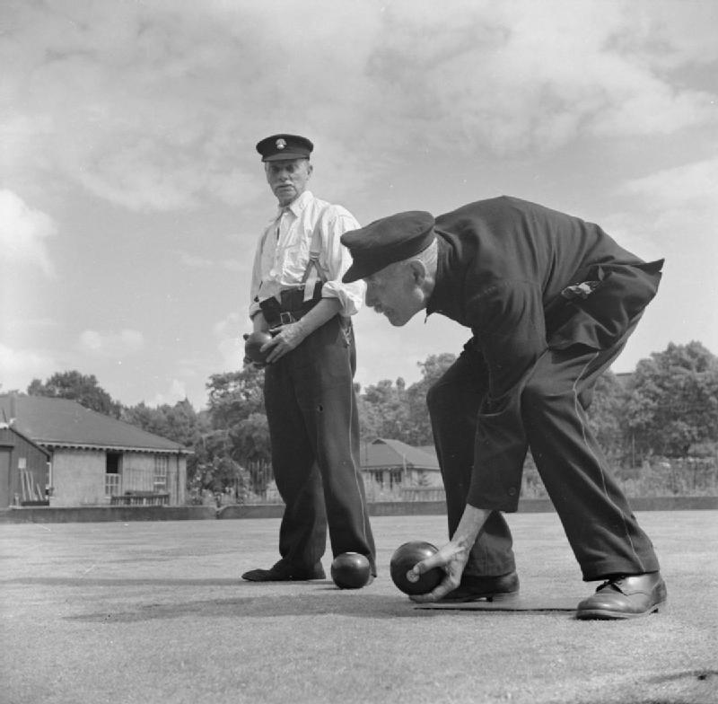 Royal Hospital Chelsea- Everyday Life With the Chelsea Pensioners, London, England, UK, 1945 Chelsea Pensioners enjoy a game of bowls in the sunshine, probably in the grounds of the Royal Hospital Chelsea.